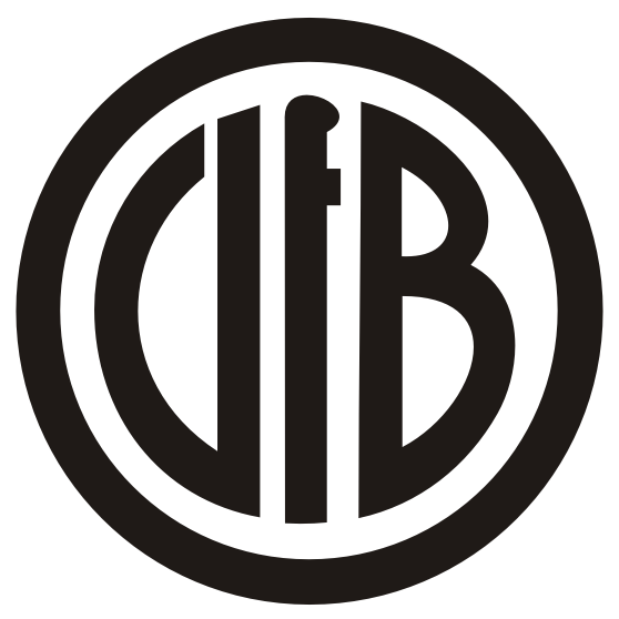 Logo of former german football club VfB Königsberg